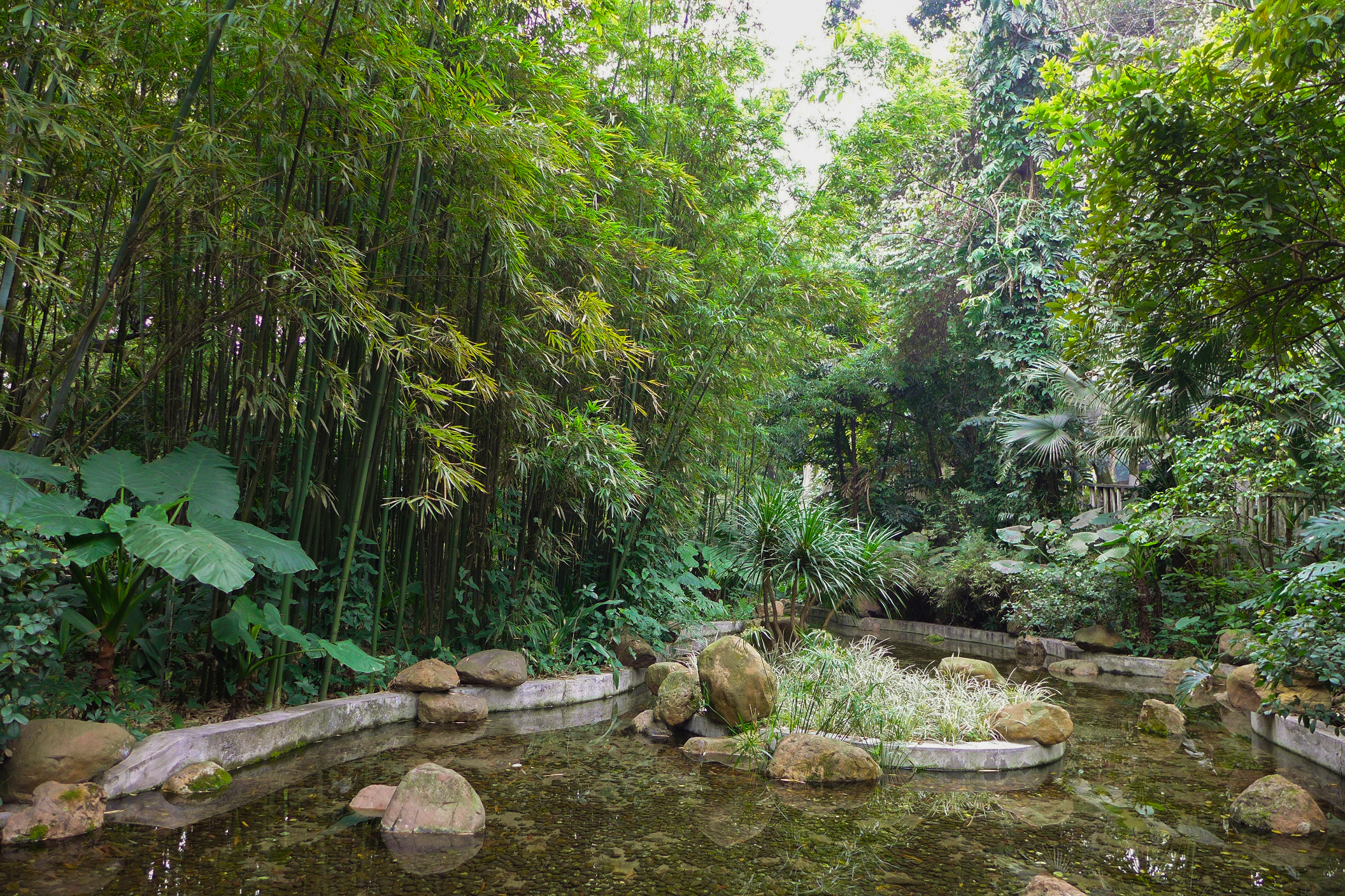 Canton Orchid Garden